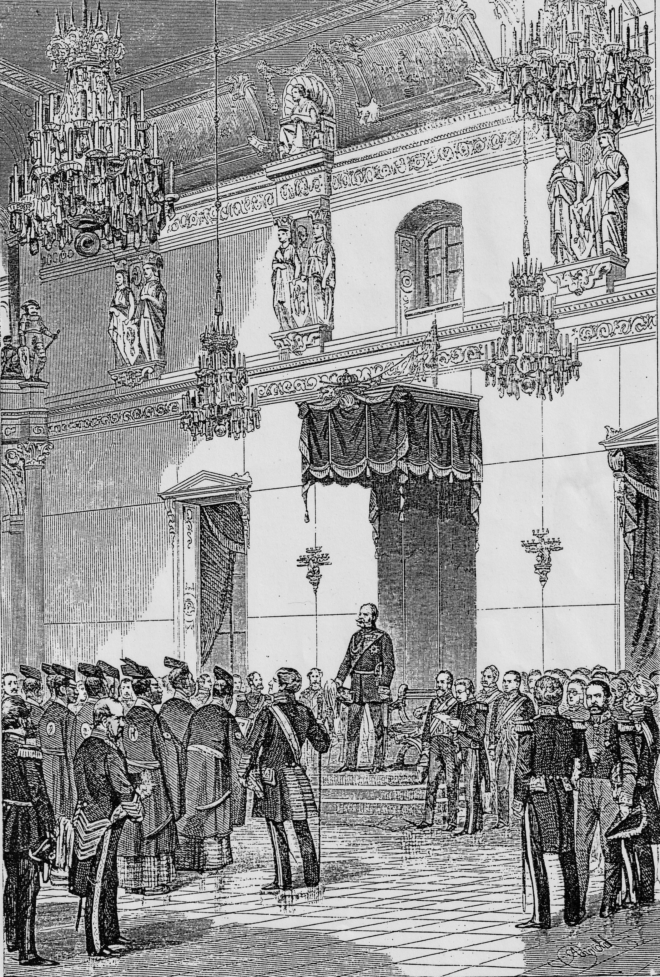 Takenounchi-Mission at Berlin 1862